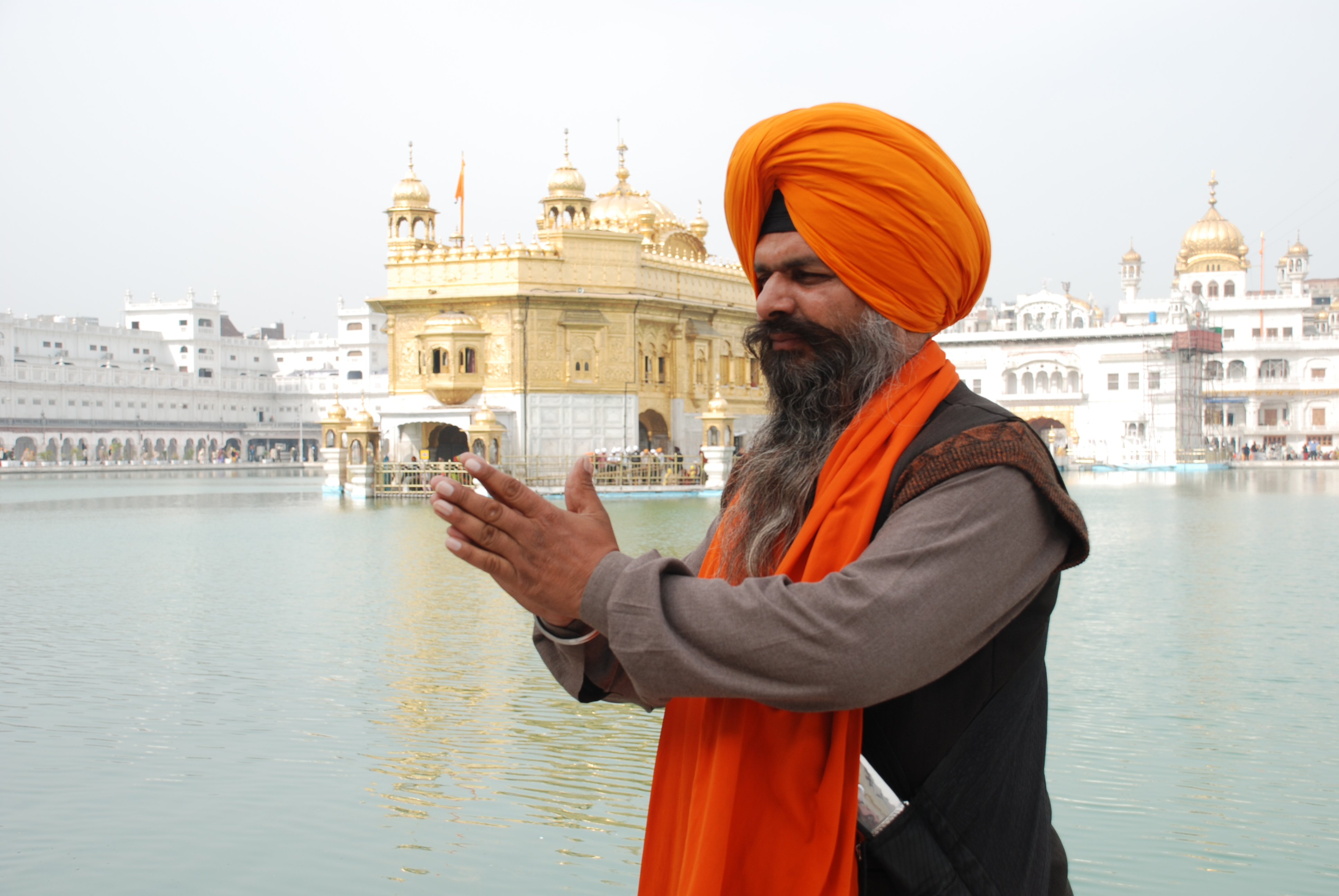 A Sikh praying in Front of the Golden Temple in Amritsar.